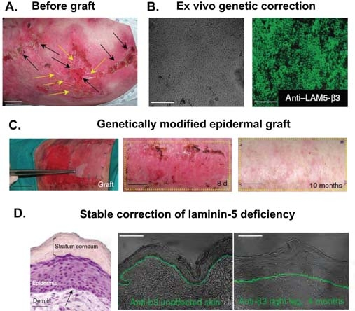 (A) Continous blistered skin (yellow arrows) and crusts (black arrows) from epidermolysis bullosa patient deficient in the β3 isoform of Laminin5 (LAMB3) before graft. (B) Ex vivo genetic correction of LAMB3 in keratinocyte culture after transduction with retrovirus expressing LAMB3. Scale bars, 100 μm. (C) LAMB3 genetically modified epidermal sheets were transplanted onto epidermolysis bullosa skin patient (left panel). Follow-up examination of the graft at 8 days and 10 months (middle and right panel) after transplantation. (D) Hematoxylin/eosin staining of grafted skin section at 4 months after transplantation shows a fully differentiated epidermis attached to the dermis (left panel). Immunofluorescence analysis of the grafted skin sections at 4 month (right panel) compared to an unaffected skin section (middle panel). The LAMB3 (green) expression is indistinguishable between the skin of a healthy individual and the genetically corrected skin graft (middle and right panel respectively). Bars scale, 50μm. Reprint by permission from MacMilian publisher; Mavilio et al., Nature Medicine, 2006).